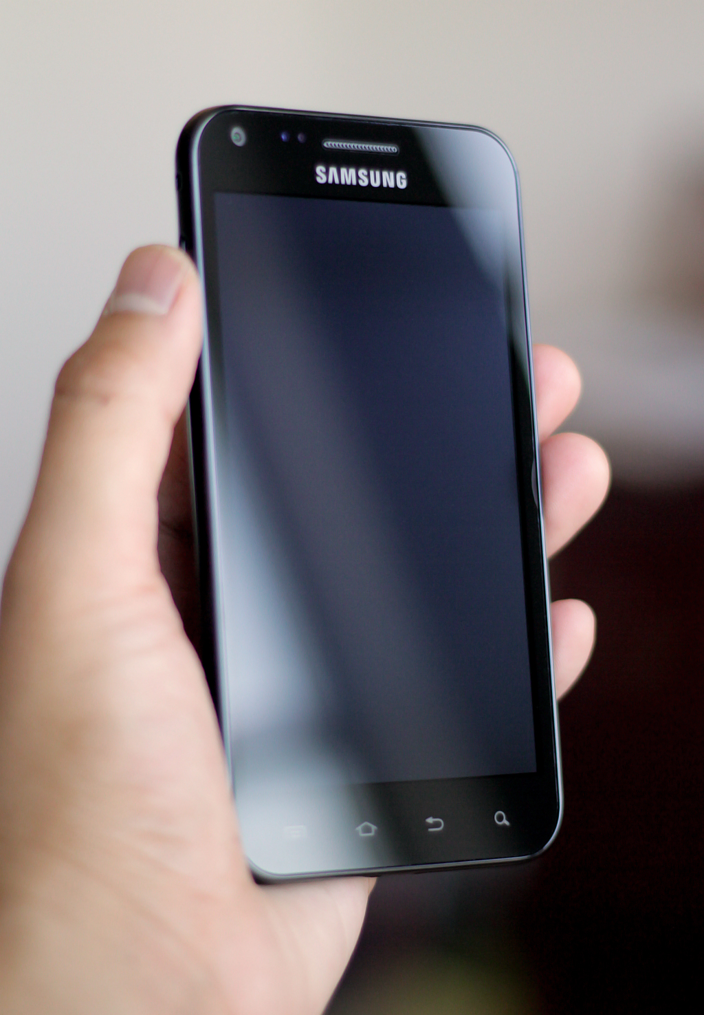 The Sprint version of Samsung's Galaxy S II smartphone, dubbed the "Galaxy S II Epic 4G Touch."